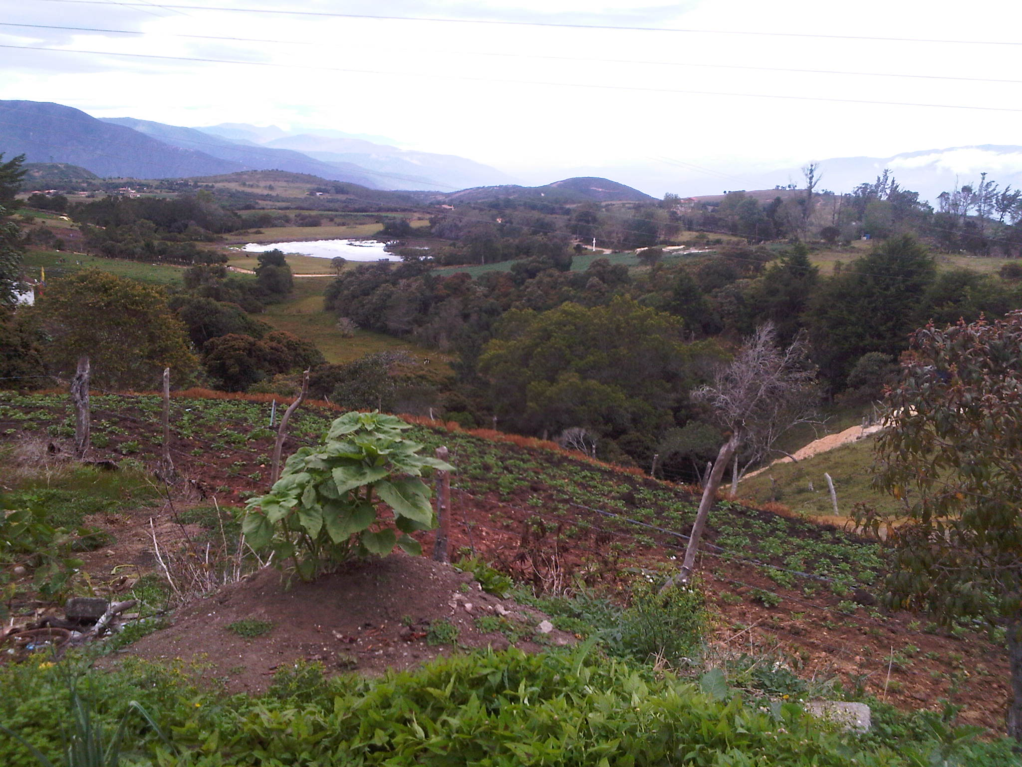 View of the region